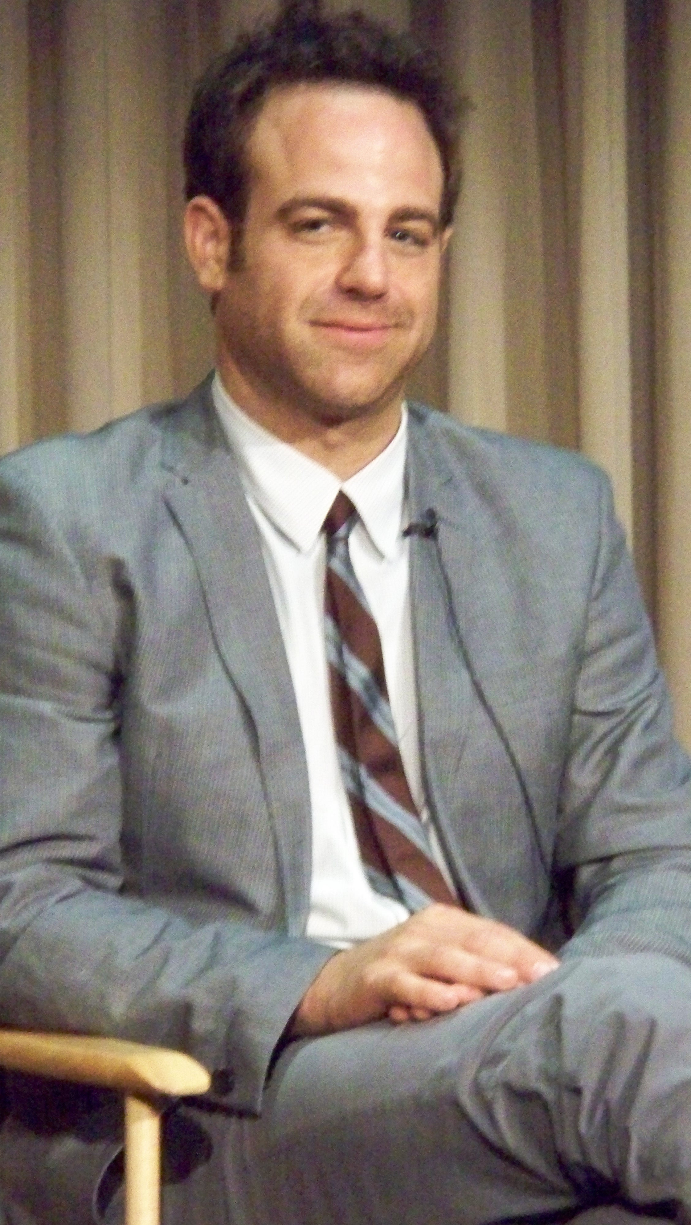 Paul Adelstein, September 2008, ABC Fall Preview Party at the Paley Center